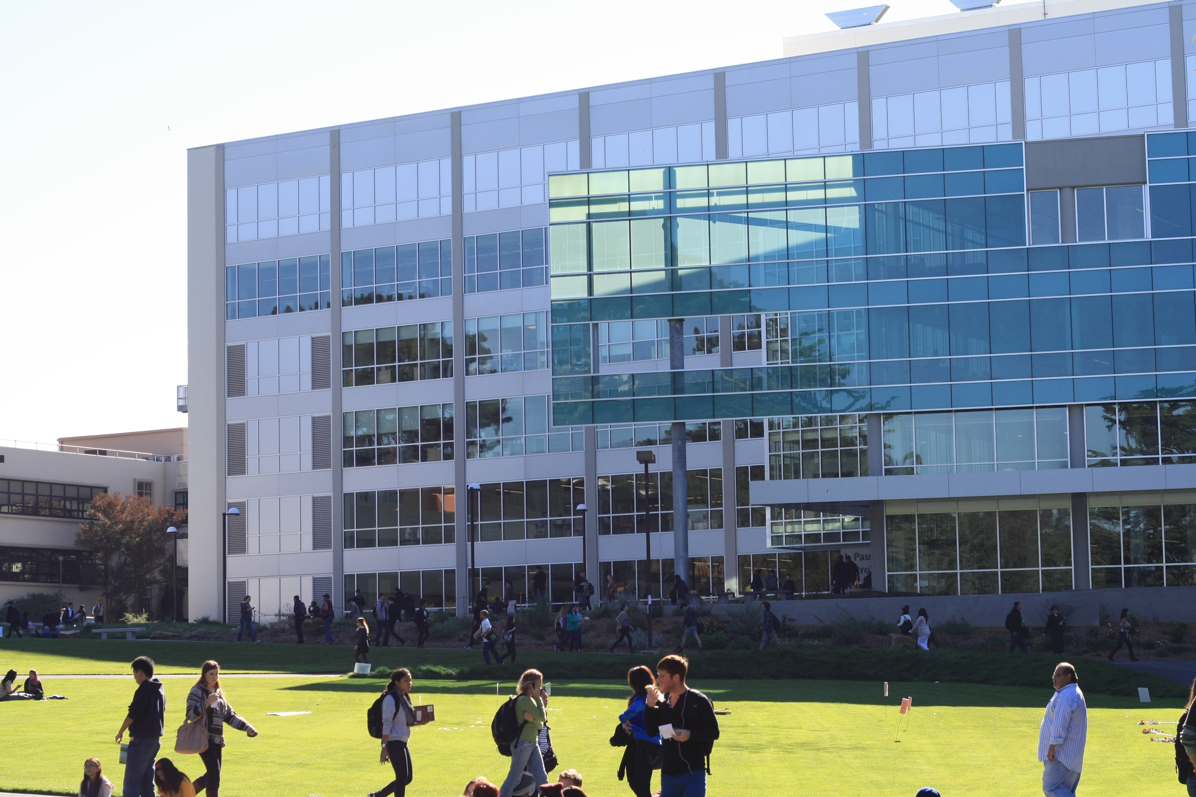 San Francisco State University - John Paul Leonard Library; the Sutro Library is on the fifth and sixth floors.